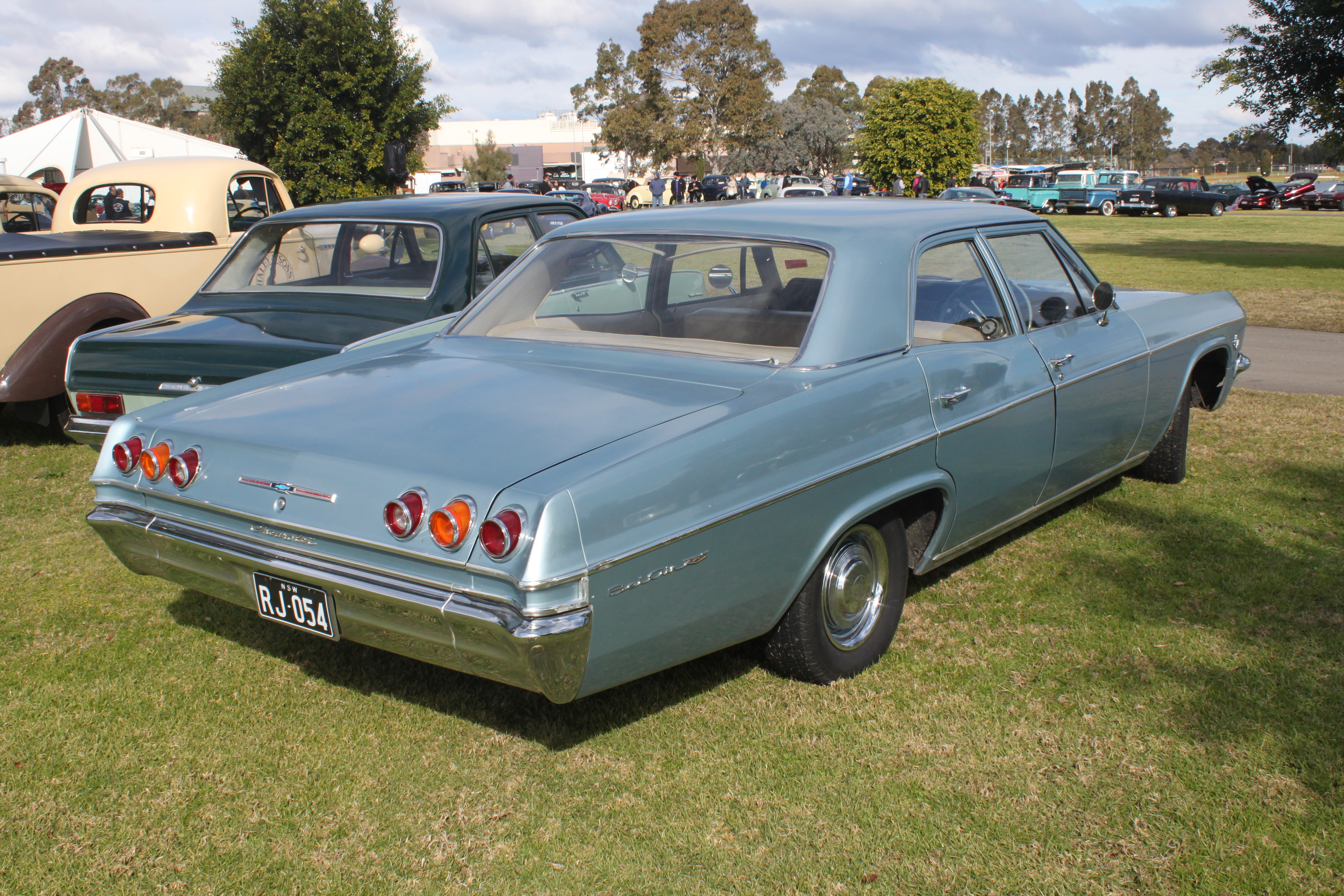 GM Display Day, Penrith Panthers, NSW July 2015